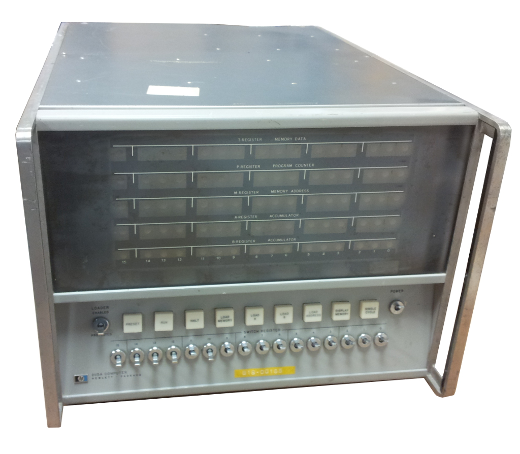 HP 2115A Computer pictured without its power supply. This is object 20140927-0347 in The National Museum of Computing ( collection.